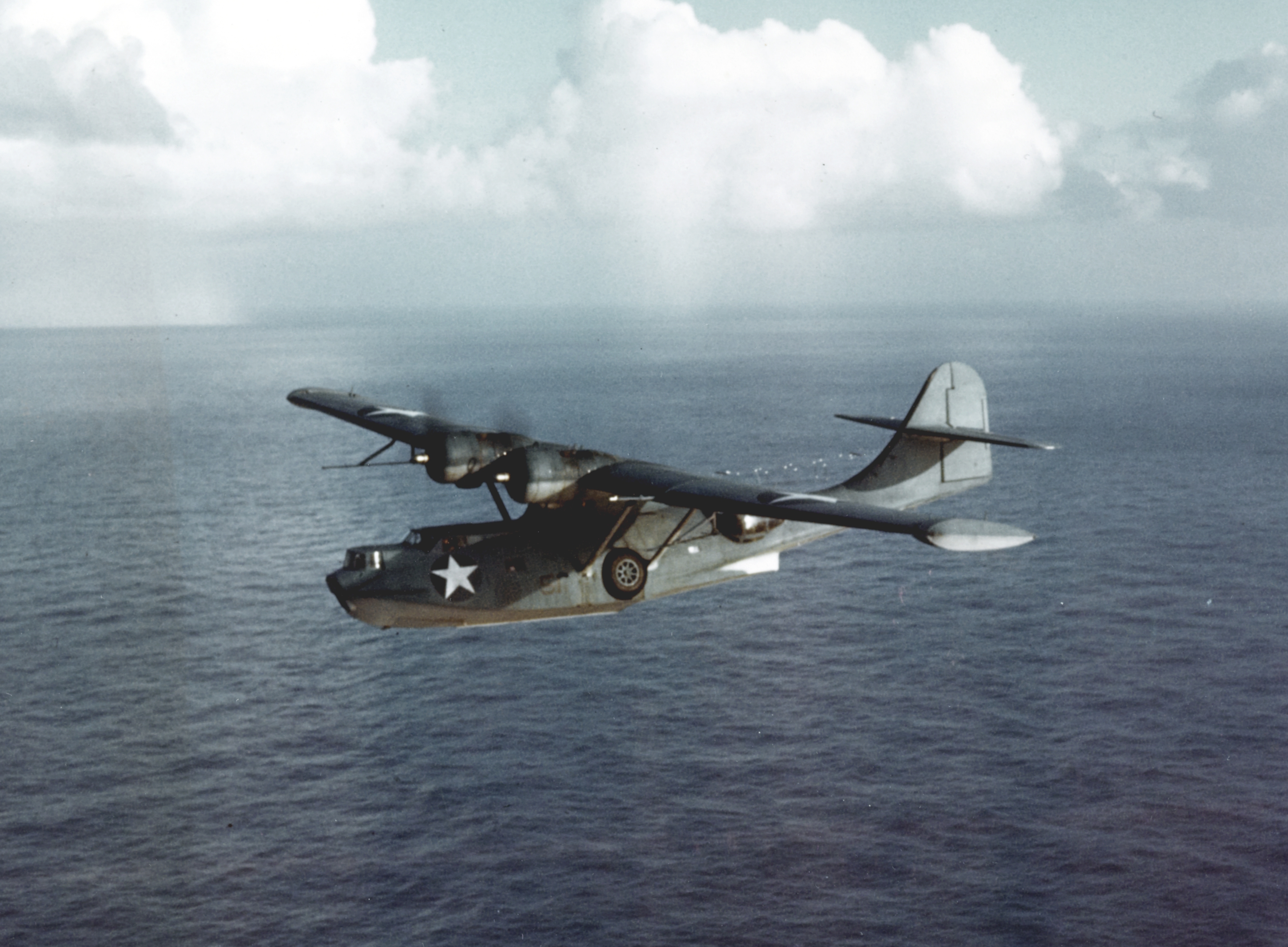 A U.S. Navy Consolidated PBY-5A Catalina patrol bomber in flight, 1942-43. Note the radar.